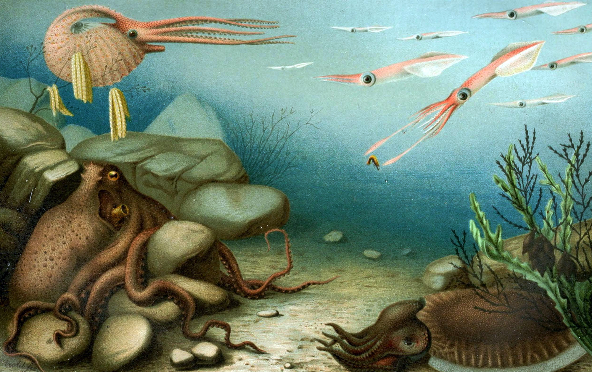 Various Cephalopoda 1-Argonauta argo 2-Loligo vulgaris 3-Octopus vulgaris 4-Sepia officinalis